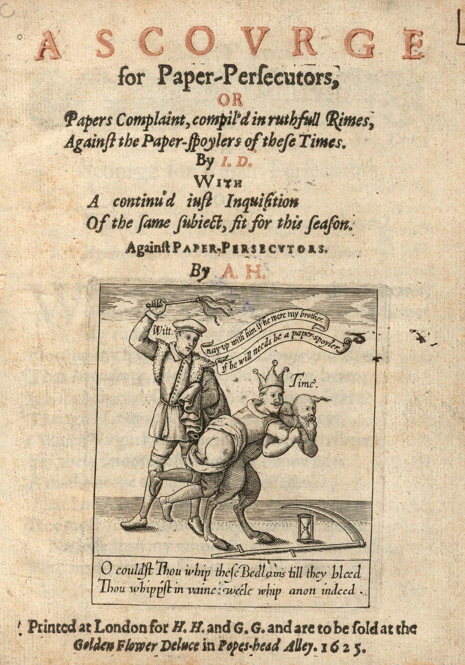 Title page from A Scourge for Paper-Persecutors, or, Papers complaint, compil’d in ruthfull rimes against the paper-spoylers of these times, London: 1625, by John Davies (1565?-1618). STC 6340, Houghton Library, Harvard University